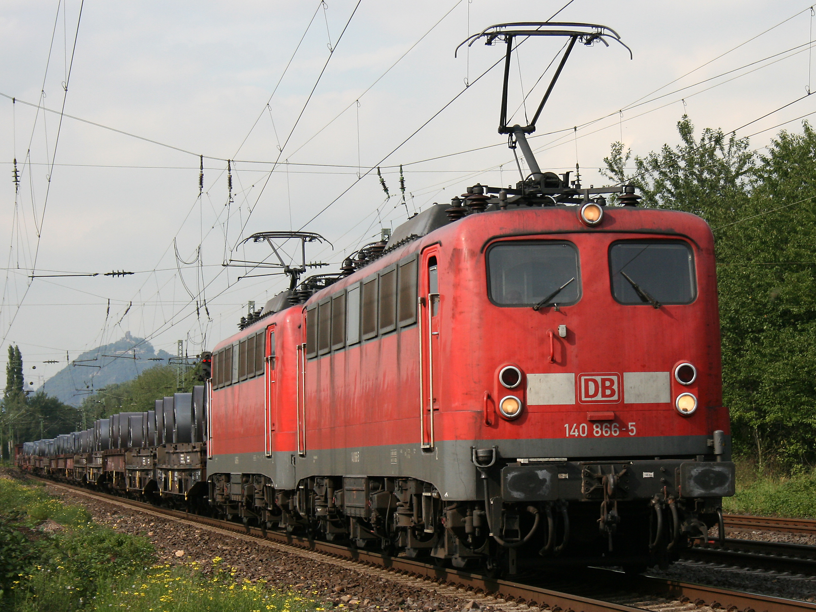 DB Class E 40 near Unkel, Germany